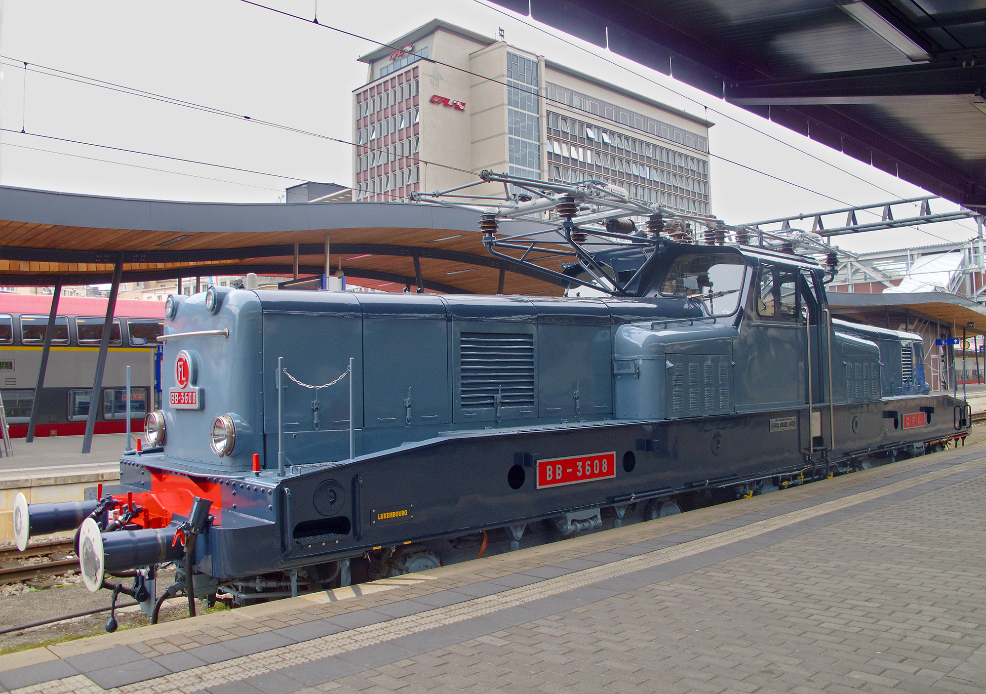 The recently restored CFL 3608 in the Luxembourg-City station